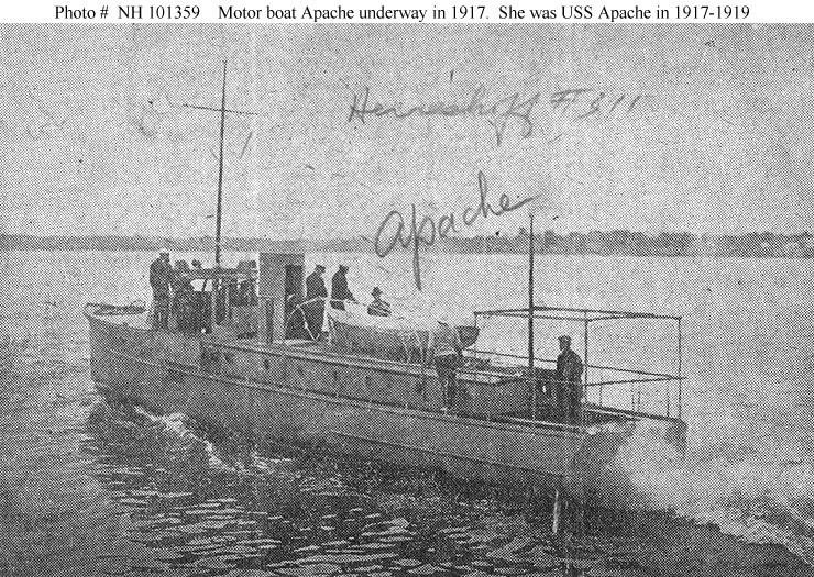 Motorboat Apache, prior to her United States Navy service as patrol boat USS Apache (SP-729)